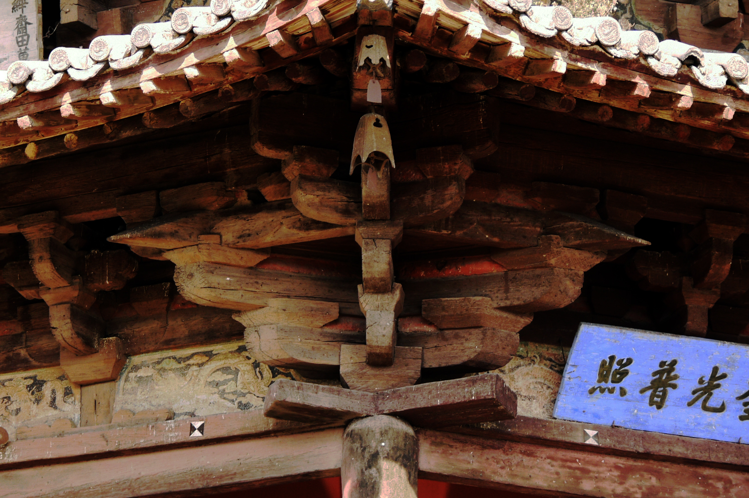 A set of brackets, or dougong, from the Fogong Temple Pagoda, built in 1056, 年 佛宮寺釋迦塔 转角铺作